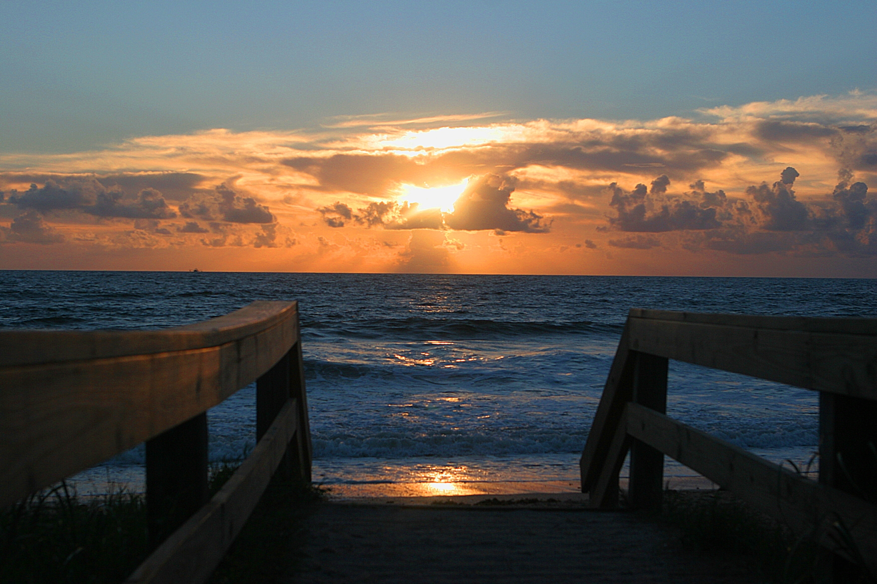 Sunrise over Ponte Vedra Beach, Florida